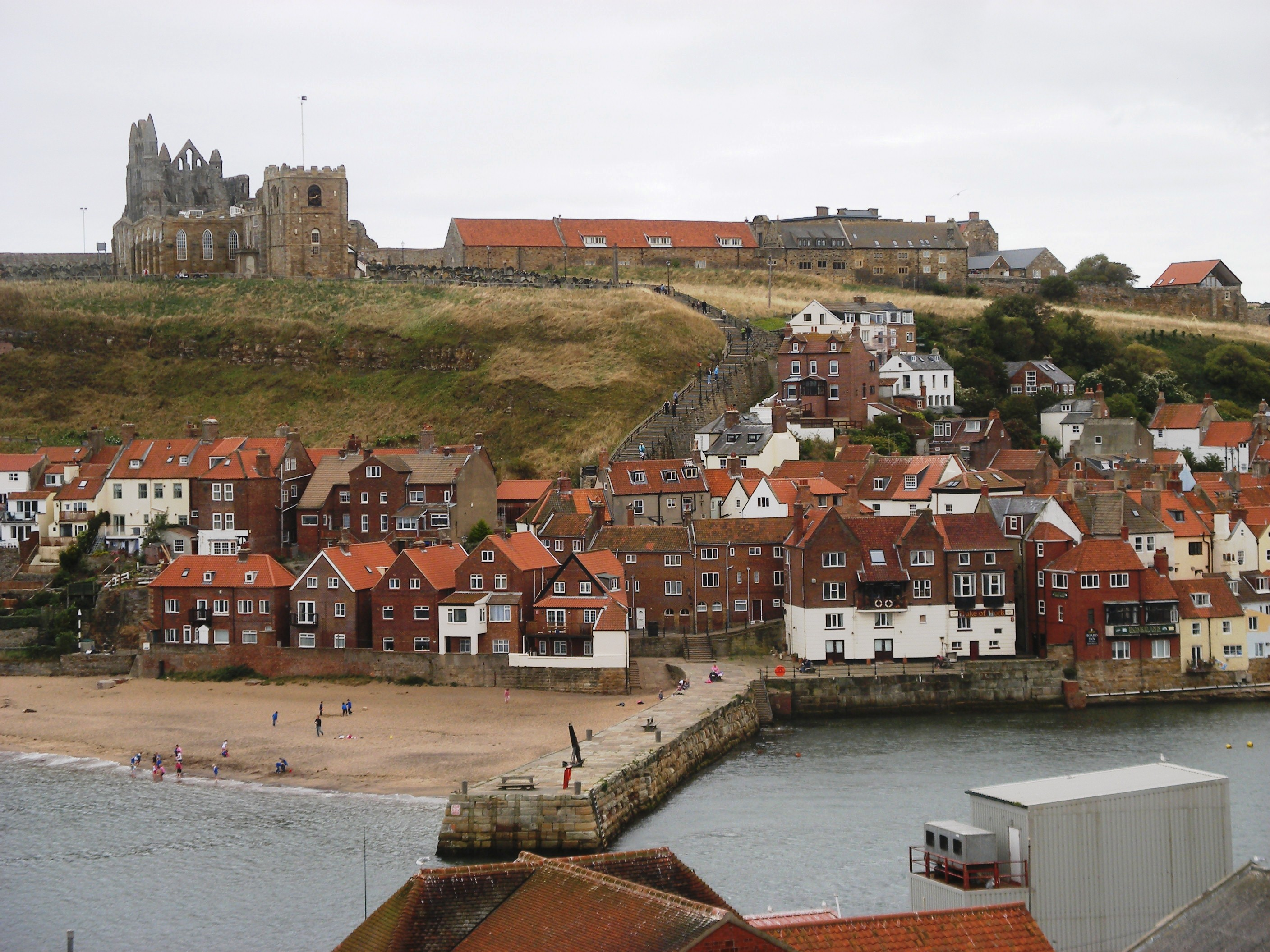 East Cliff Whitby